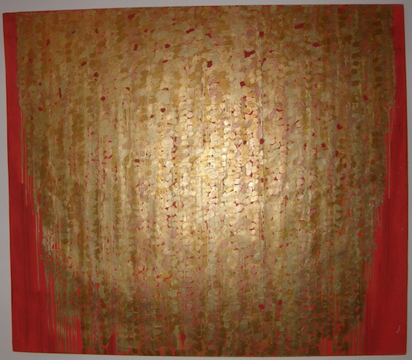 Pictură pe pânză (Silviu Oravitzan)